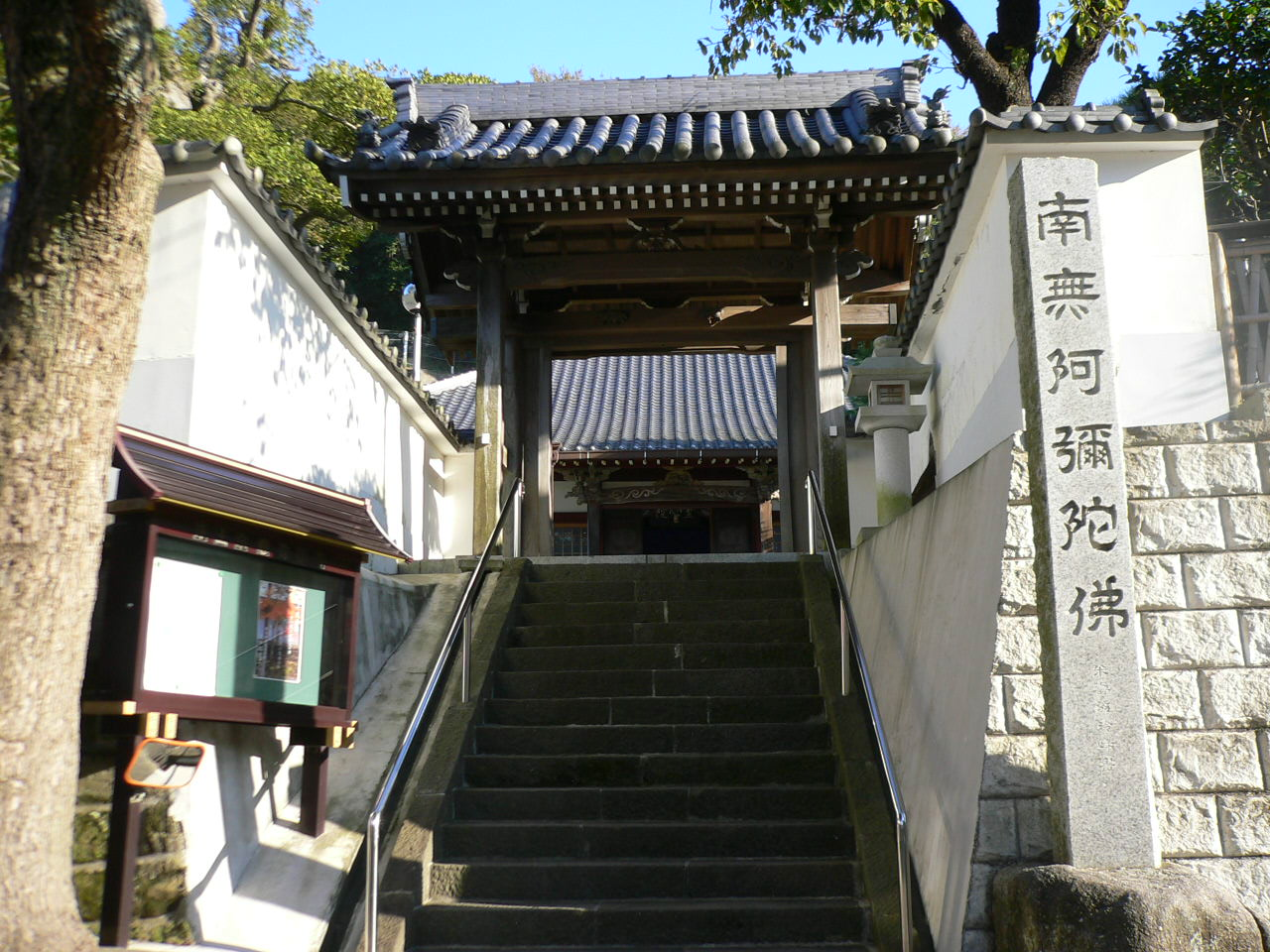 Shingyouji (Buddhism Temple) in Yokohama, Japan